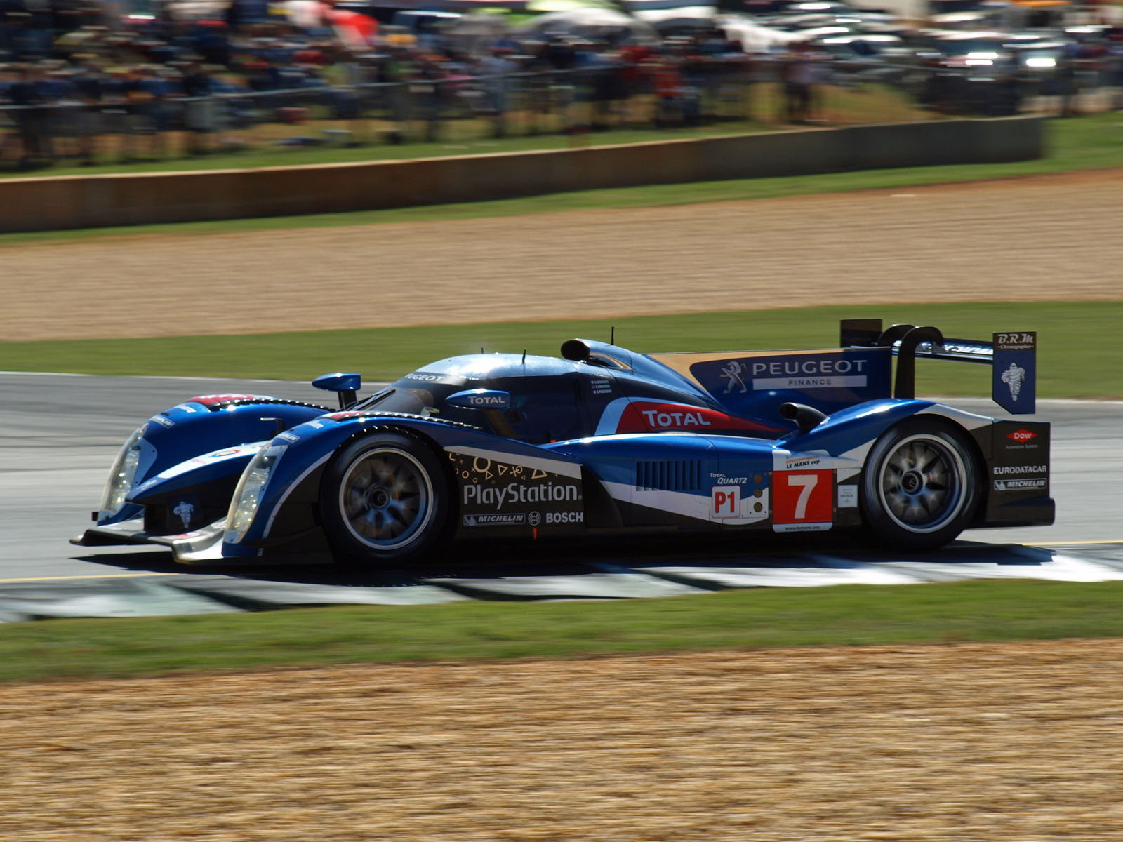 Anthony Davidson driving the Peugeot Sport Peugeot 908 in the 2011 Petit Le Mans at Road Atlanta.